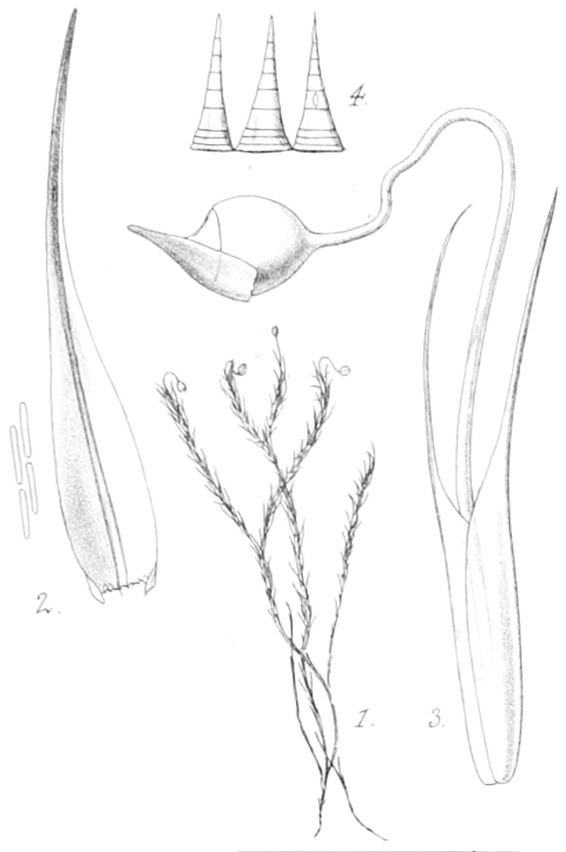 Blindia gracilima Mitt. = Blindia magellanica Schimp. habitus, cauline leaflet, perichaetium with spore capsule, peristome teeth.